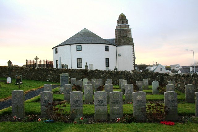 Bowmore Wargraves Lest we forget ,wargraves at Bowmore.